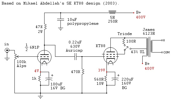 class a